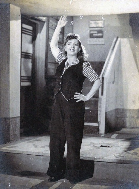 Fearless Nadia in the Indian movie 11 O'Clock (1948). Basant Pictures.